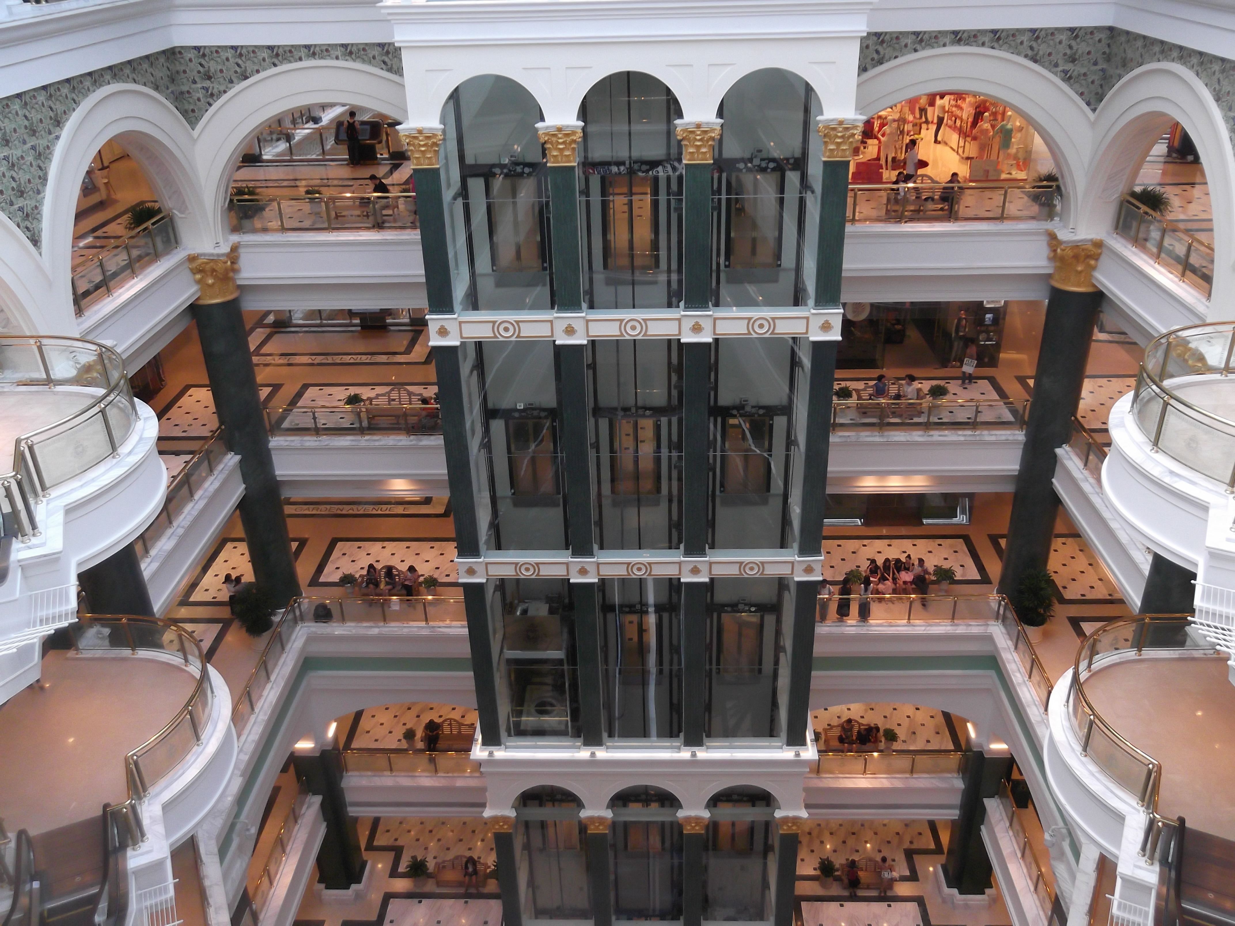 Looking down in an atrium of Global Harbor, Shanghai, China.